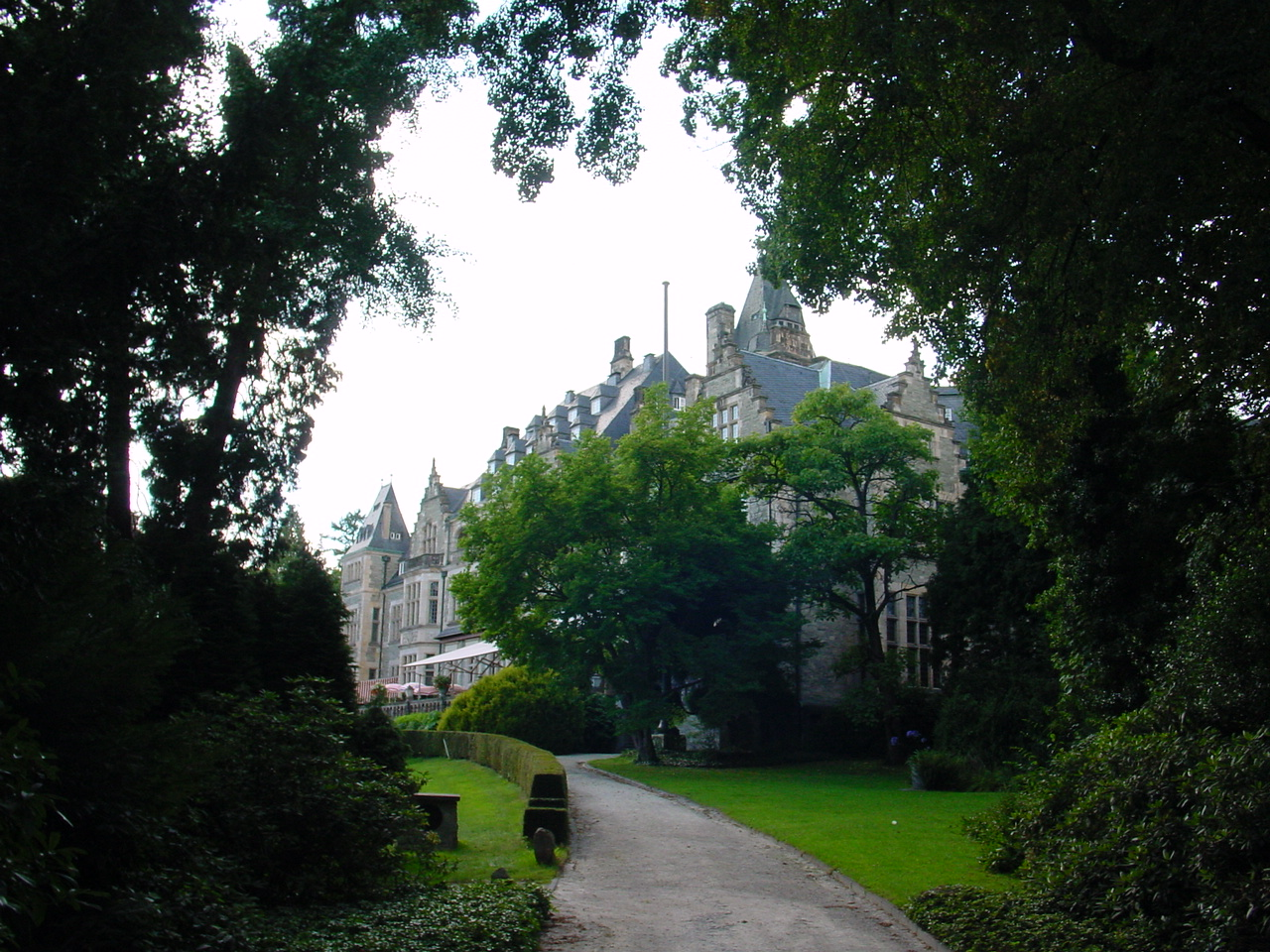 Rear view of Friedrichshof Castle in Hesse, central Germany.